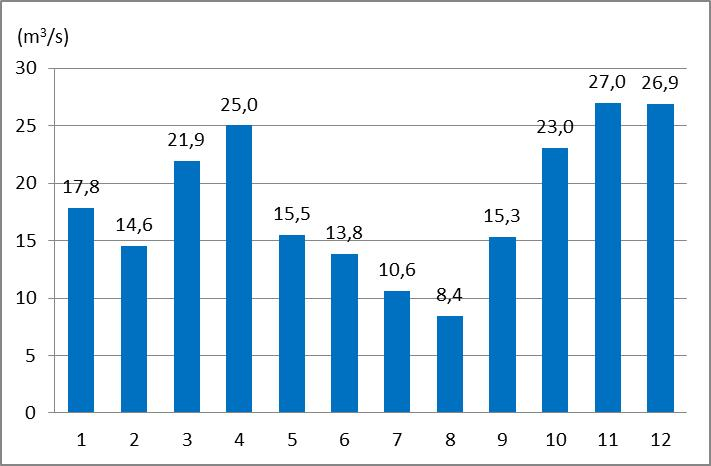 Average monthly discharges of Sora River at the gauging station Suha in 1981–2010